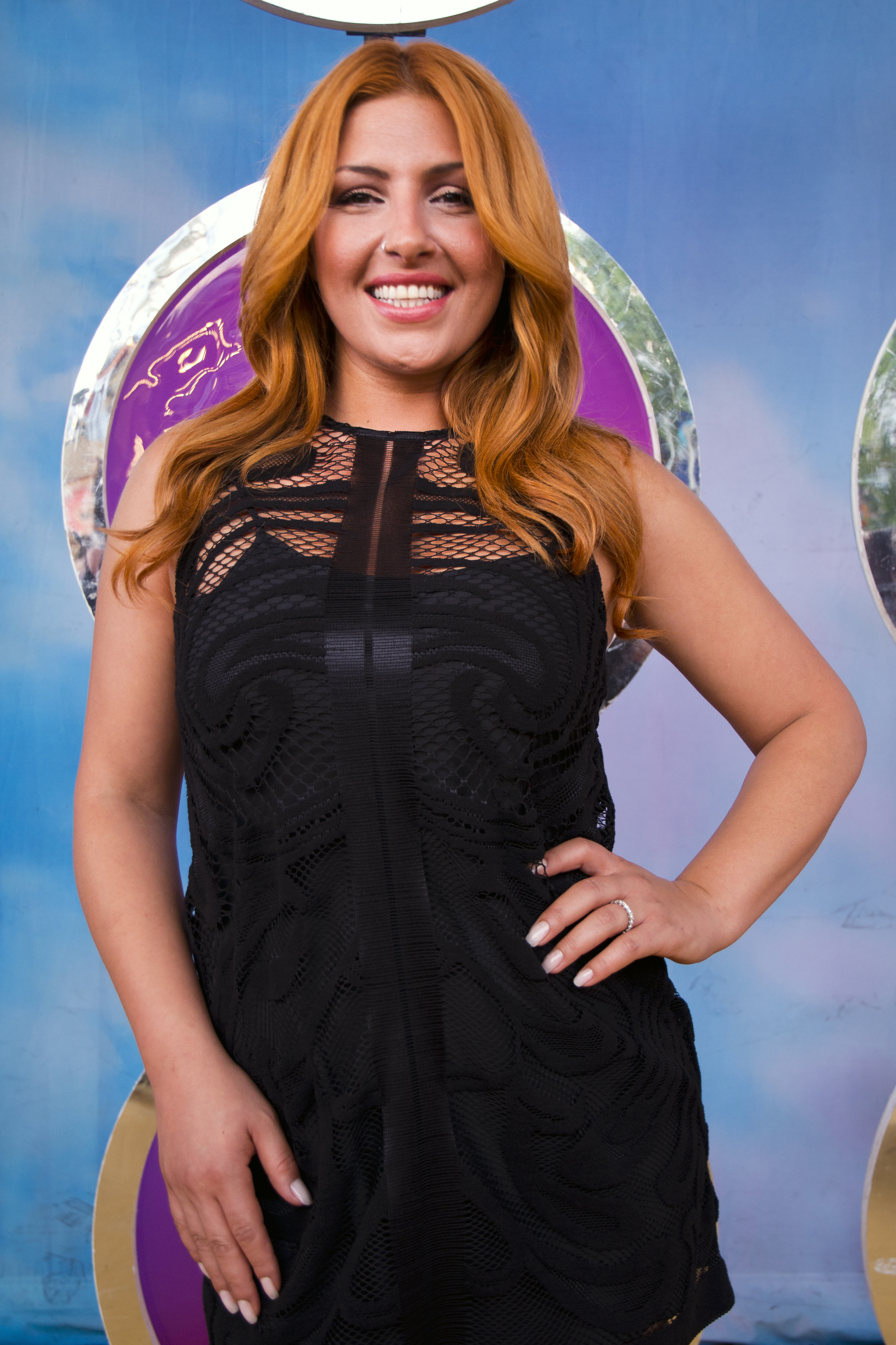 HelenaPaparizou at sommarkrysset 2014